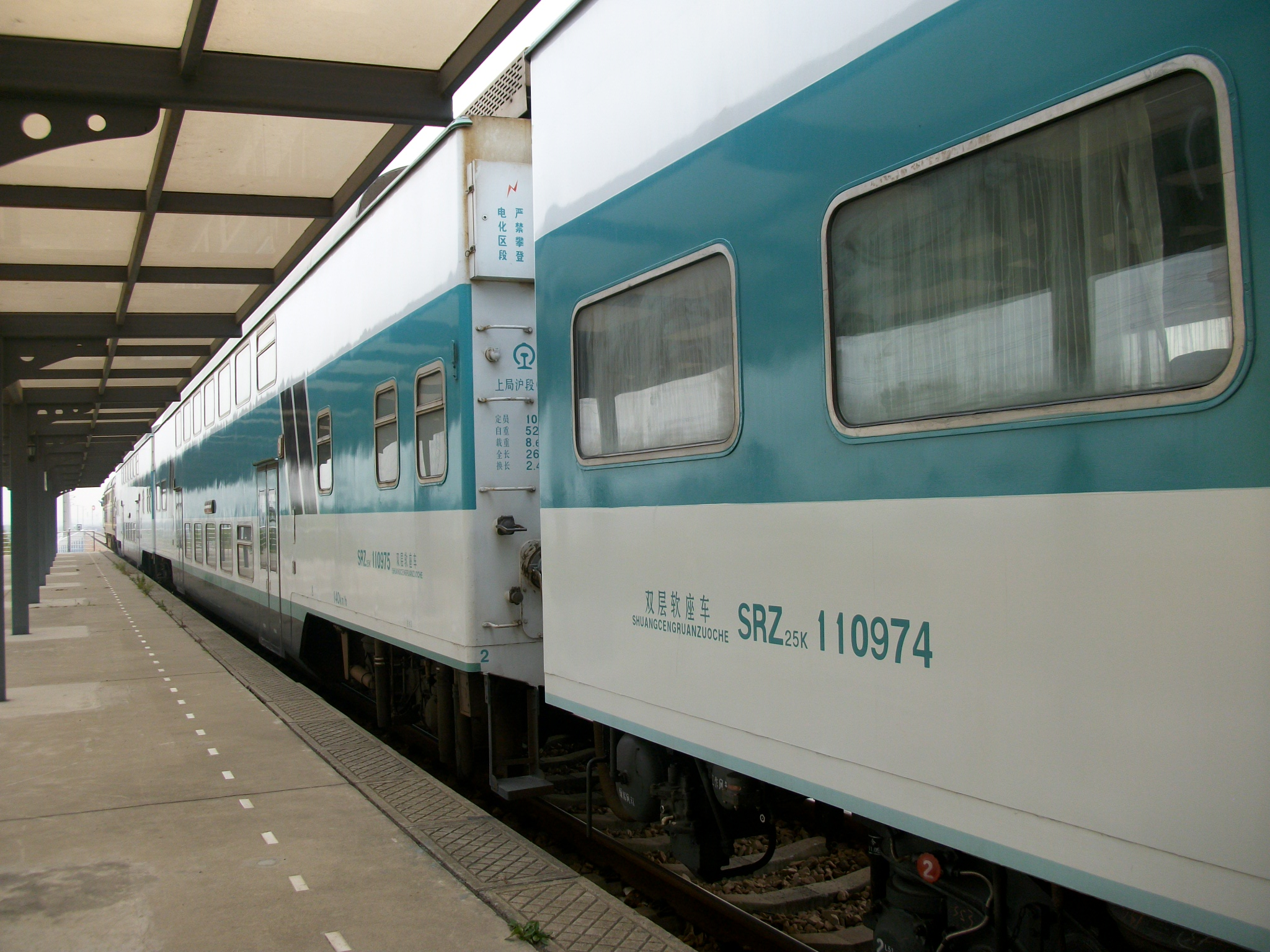 SRZ25Z marked as SRZ25K for Train. K8351 at Haiwan.